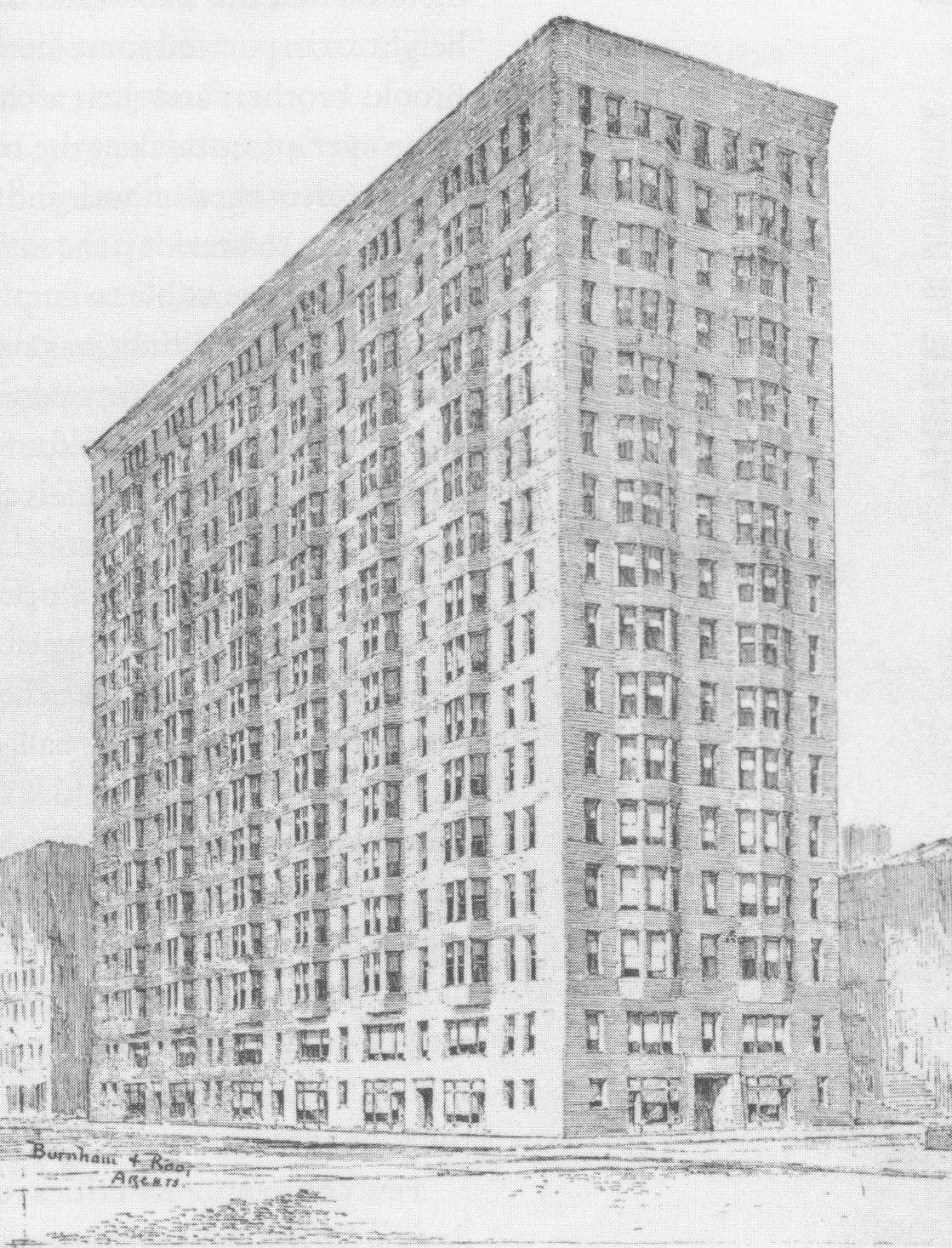 Sketch entitled "The Monadnock Office Building, Chicago. Burnham and Root, Architects."